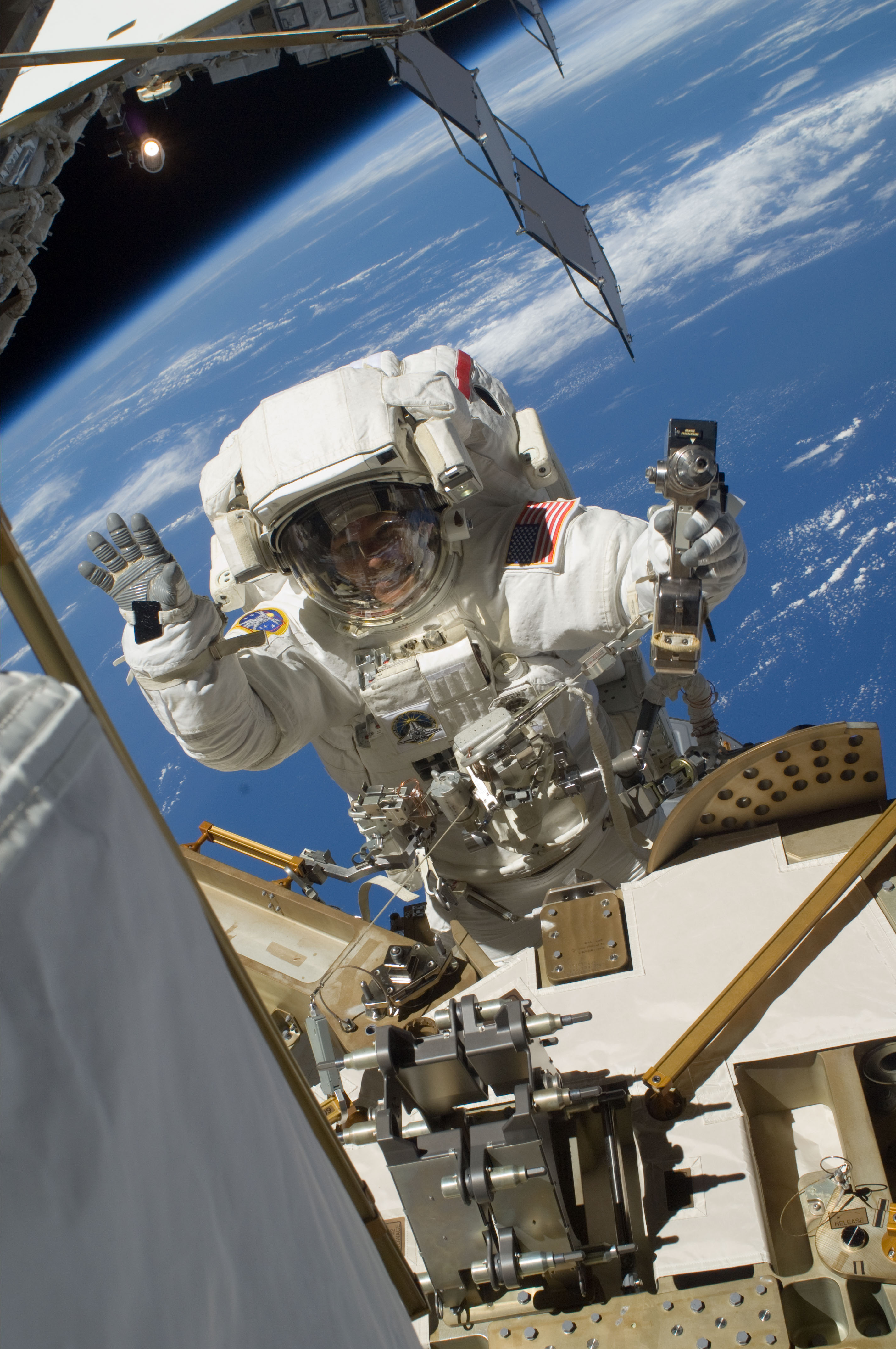 NASA astronaut Steve Bowen, STS-132 mission specialist, participates in the mission's first session of extravehicular activity (EVA) as construction and maintenance continue on the International Space Station. During the seven-hour, 25-minute spacewalk, Bowen and NASA astronaut Garrett Reisman (out of frame), mission specialist, loosened bolts holding six replacement batteries, installed a second antenna for high-speed Ku-band transmissions and adding a spare parts platform to Dextre, a two-armed extension for the station's robotic arm.